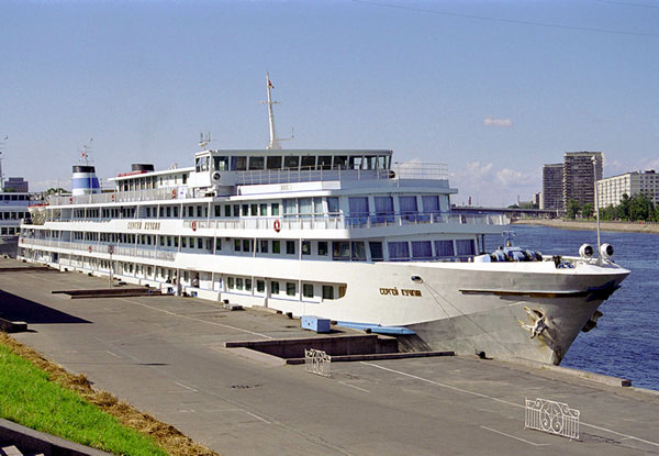 River cruise ship Sergey Kuchkin in Saint Petersburg, in 2001, Project 92-016, Valerian Kuybyshev class